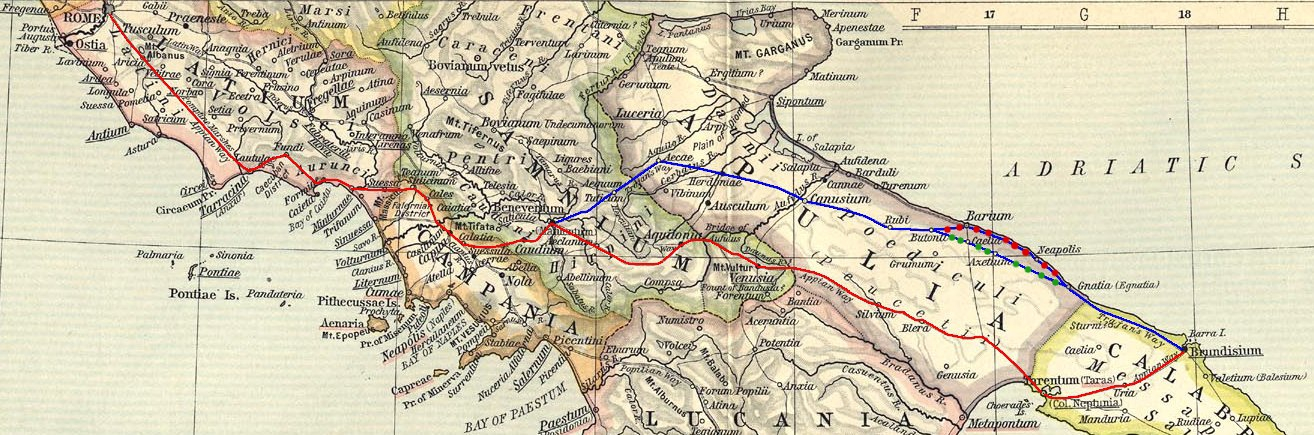 Ancient roman Appia road (from a William R. Shepherd 1911 map). The original track is in red color. In blue color a subsequent parallel track built under Traiano emperor and named Appia Traiana. Via Traiana Costiera: blue and red; Via Traiana Interna: blue and green